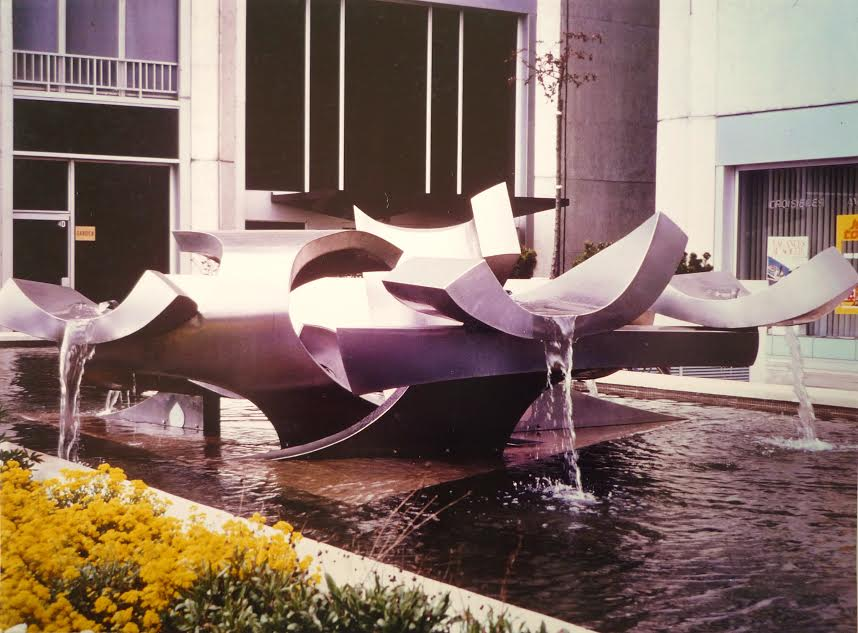 1975 . Fountain Stainless Steel